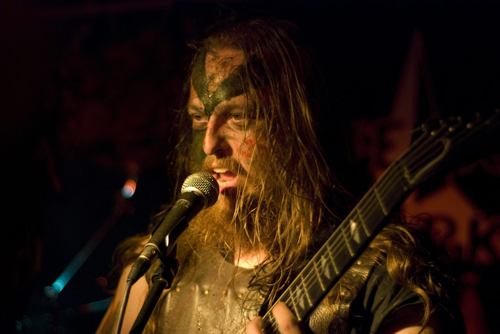 Licensed under Creative Commons Attribution-Share Alike. Feel free to use it anywhere but put a link to my website or Flickr page.